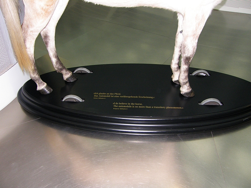 Horse in the Mercedes-Benz Museum, Stuttgart, Germany, with the citation if Wilhelm II, German Imperor